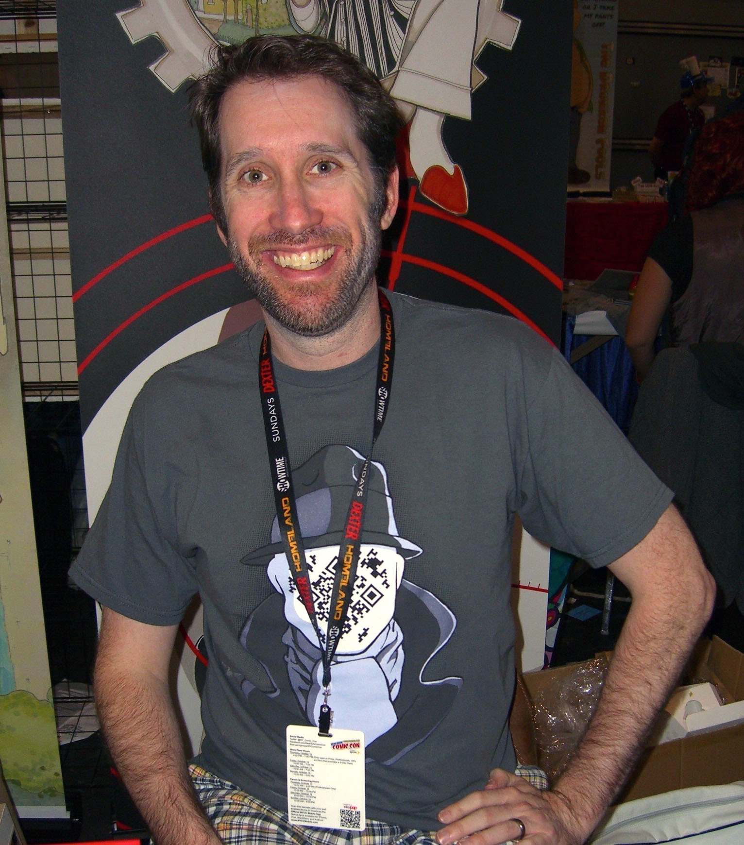 Comics creator Jim McCann at the New York Comic Con, October 15, 2011. This photo was created by Luigi Novi. It is not in the public domain, and use of this file outside of the licensing terms is a copyright violation.